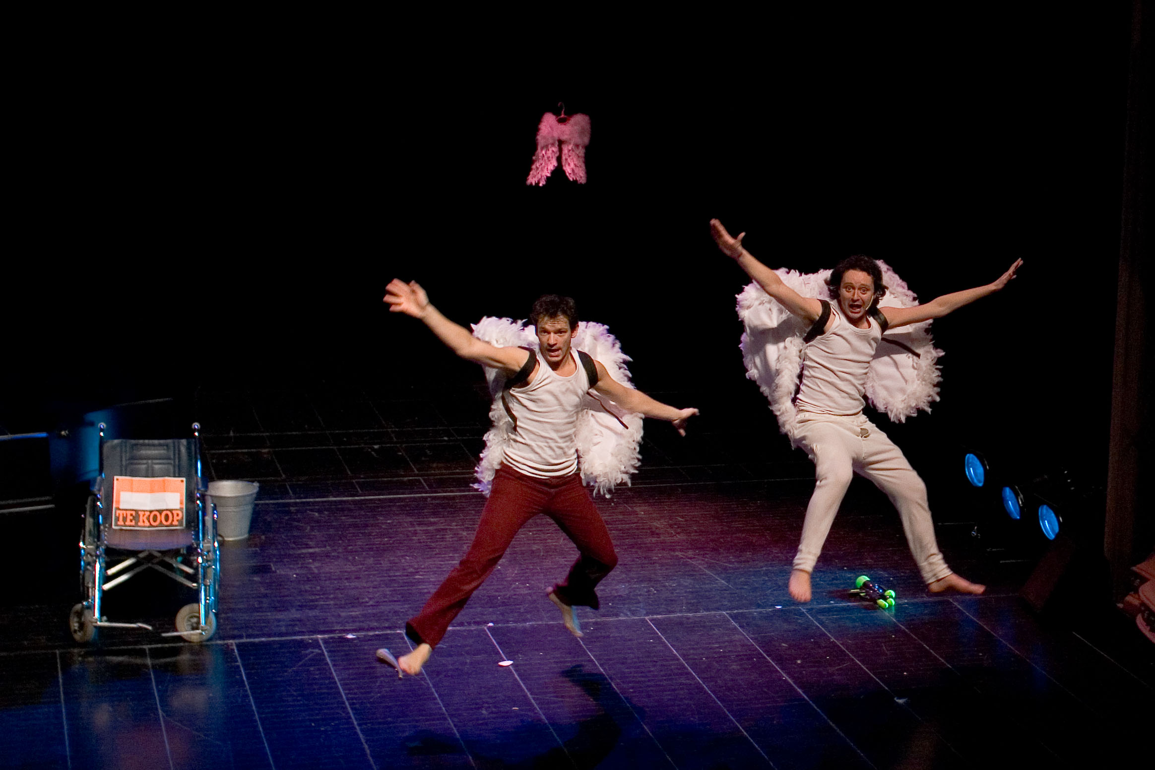 Gino Sancti at Comedy Zone 2007